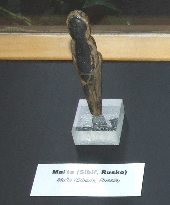 Prehistoric Times of Bohemia, Moravia and Slovakia, National Museum in Prague